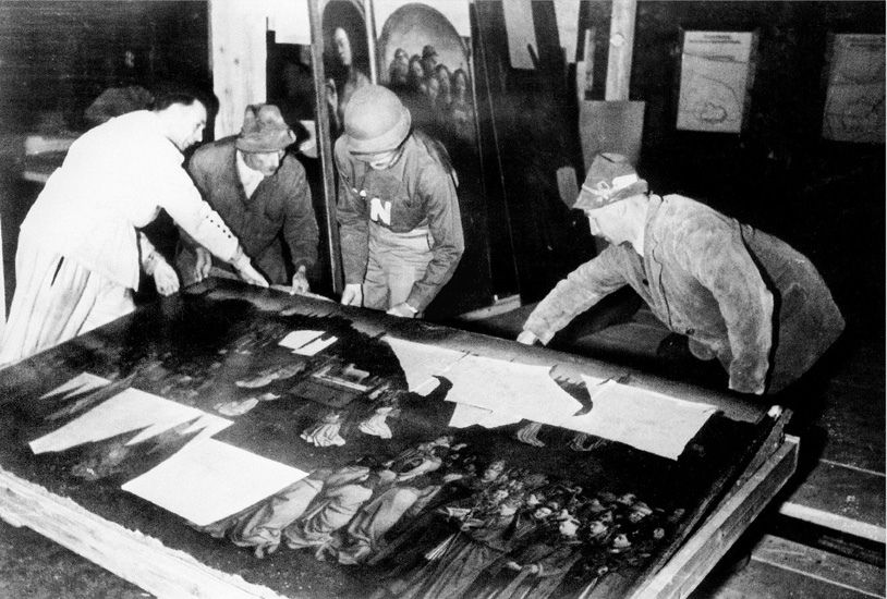 ALTAUSSEE, AUSTRIA - JULY 1945: The central panel of the Ghent Altarpiece, due to its size and weight, proved particularly challenging to move through the narrow passageways. Other panels of the altarpiece are visible in the background behind Stout. Note the tissue that has been applied to the painted surface to secure loose or flaking paint. This is a process known as "facing." Stout was proud of his U.S. Navy background and usually wore an “N” for Navy on his jacket or helmet. (Photo credit: National Archives and Records Administration, College Park, MD)